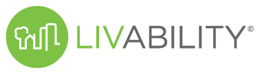 Logo for the website brand